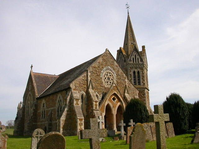 Lower Shuckburgh - Saint John The Baptist A view from the footpath. The church dates from 1864 and was built in the Gothic style.